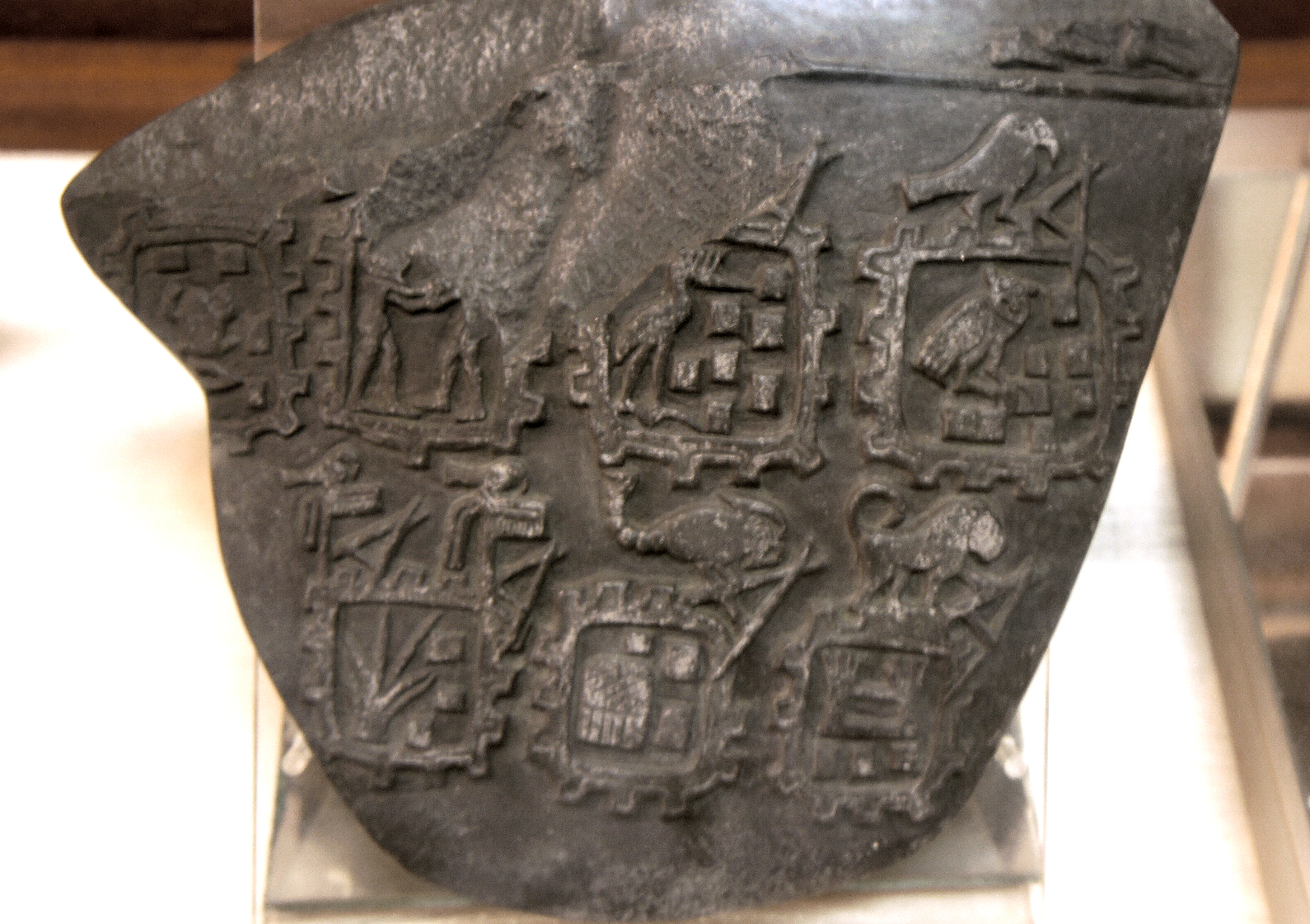 Libyan Palette back cropped